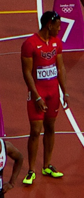 Isiah Young at the 2012 Summer Olympics